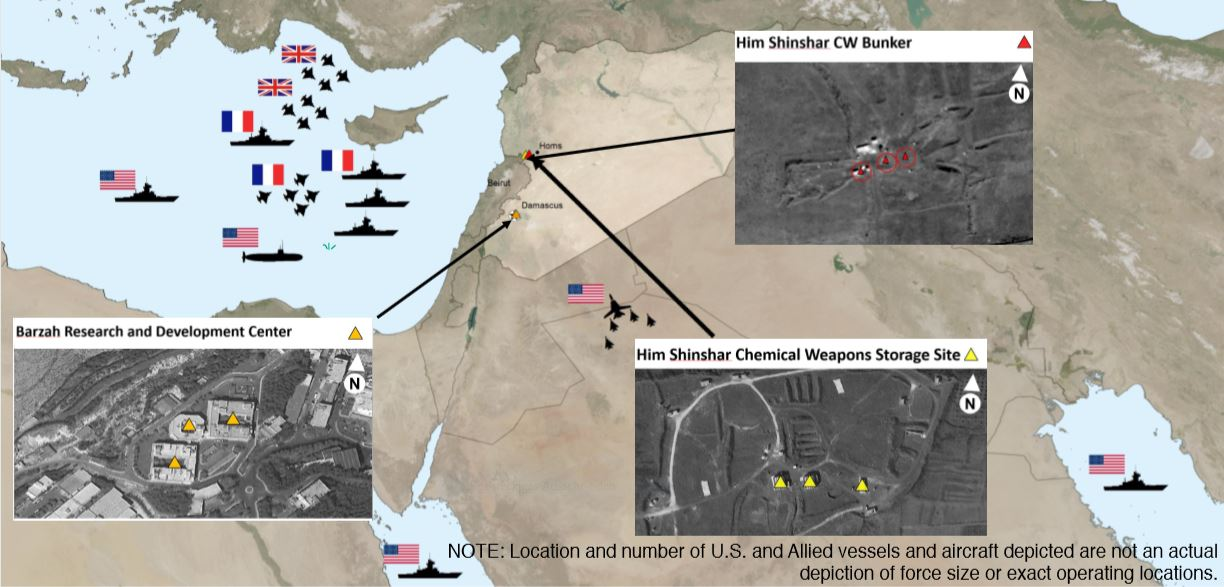 News Briefing Slide of 2018 bombing of Damascus and Homs released by the US Department of Defense